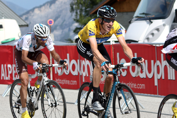 Braddley Wiggins et Jean Christophe Péraud